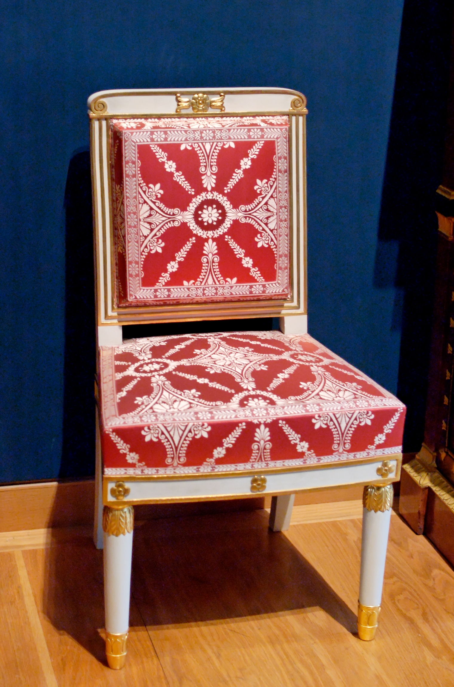 Chair, one of a pair, Empire period. Wood and gold rechampi en blanc.